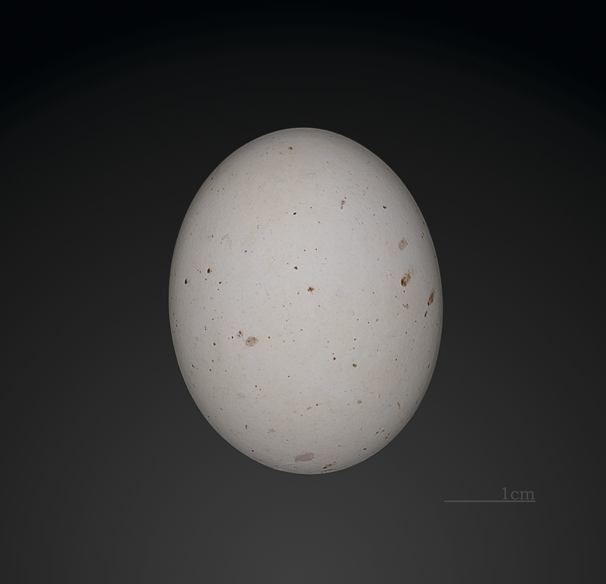 Egg of White-faced Storm Petrel. Collection of René de Naurois Jacques Perrin de Brichambaut.